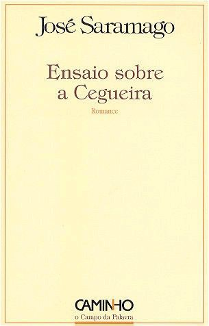 Book cover of Blindness by Portuguese author José Saramago.